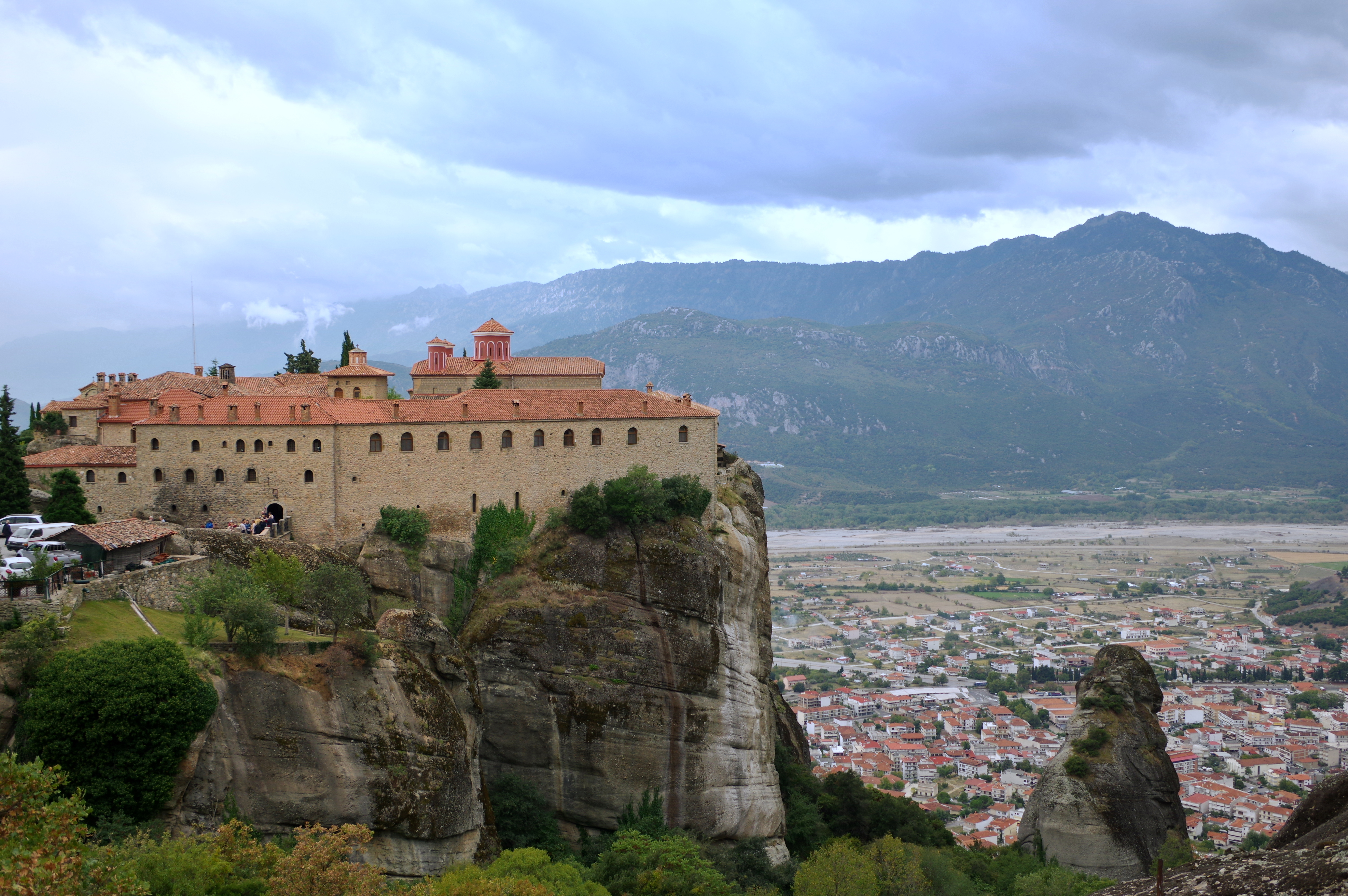 Greece, Meteora, Moni Agiou Stephanou